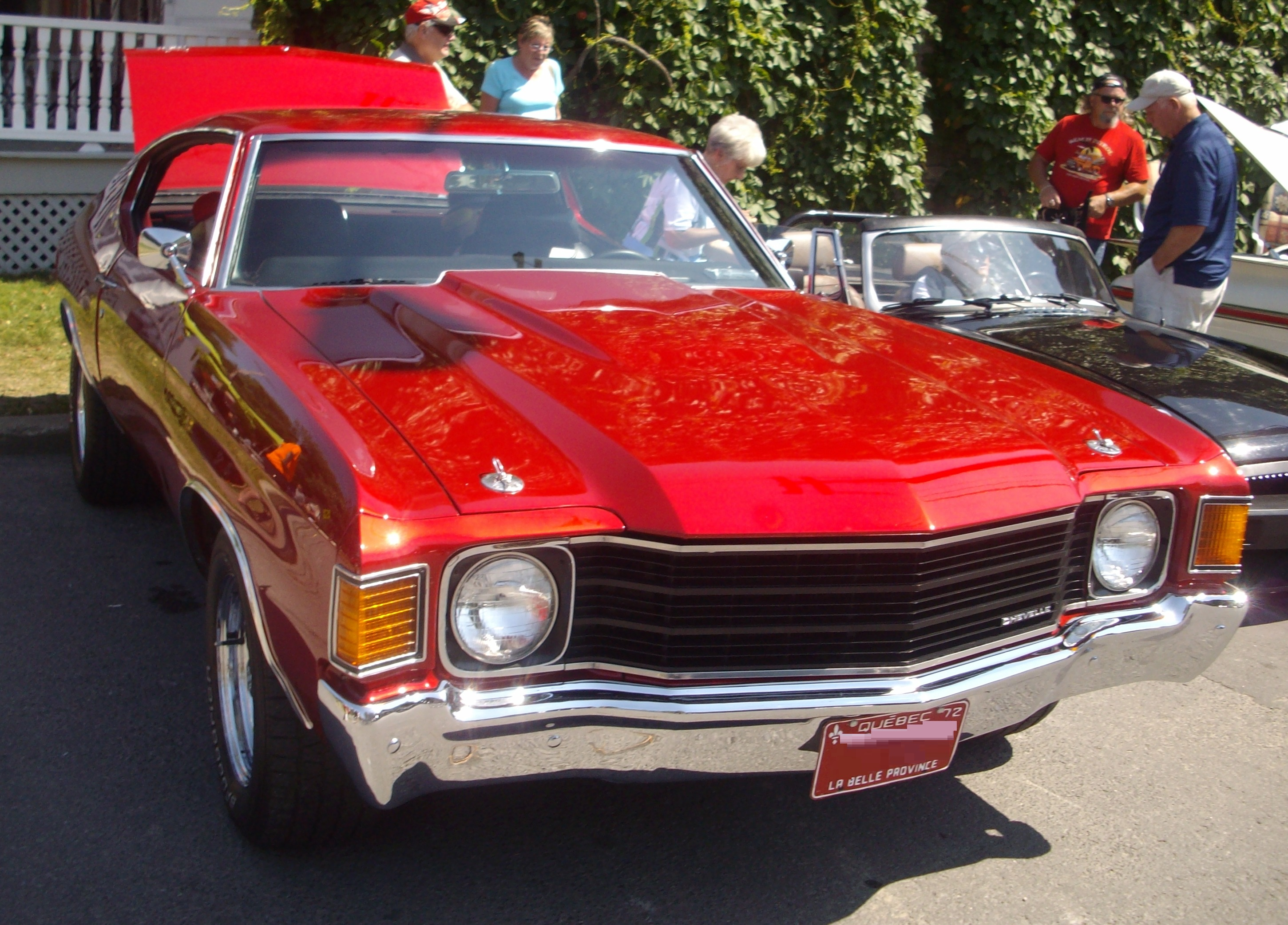 1972 Chevrolet Chevelle photographed in Hudson, Quebec, Canada at Auto classique Hudson.